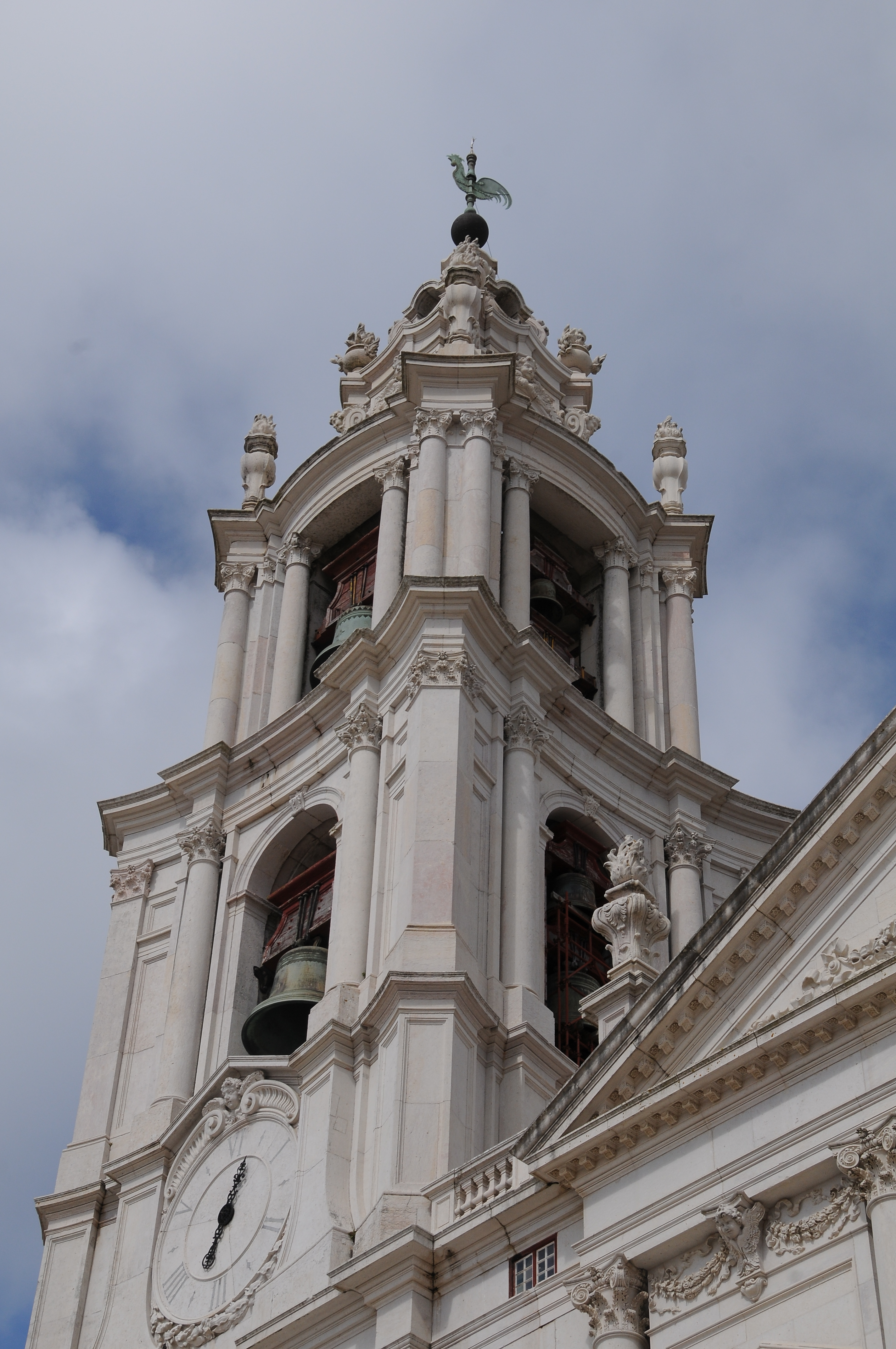 Palácio Nacional de Mafra Portugal in 2012